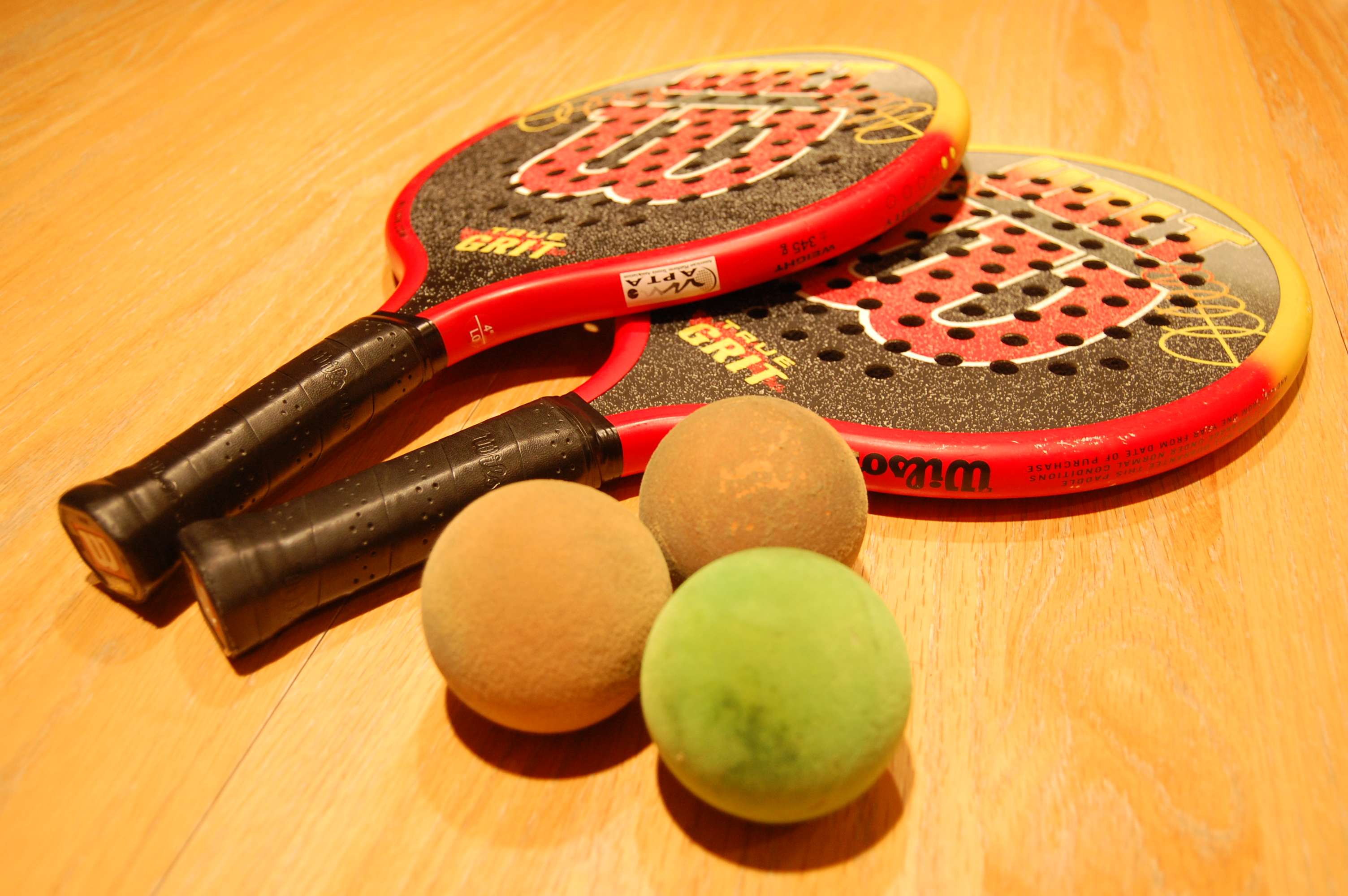 Racquets and balls for platform tennis